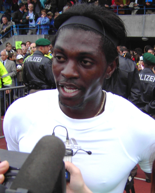 Emmanuel Adebayor on May 28, 2006 in Biberach/Riss. Courtesy of Weberberg.de, Website for Biberach.